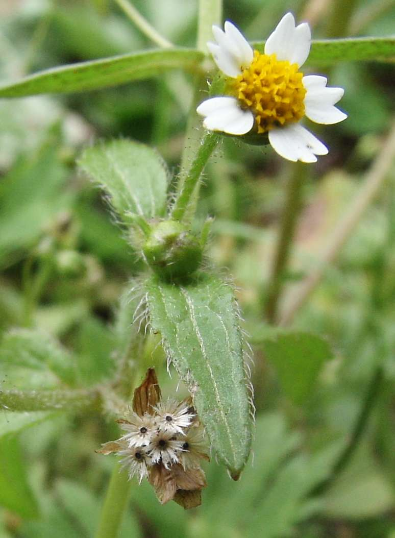 Galinsoga ciliata from Cologne, Germany; flower, seeds, stem and leaves visible.